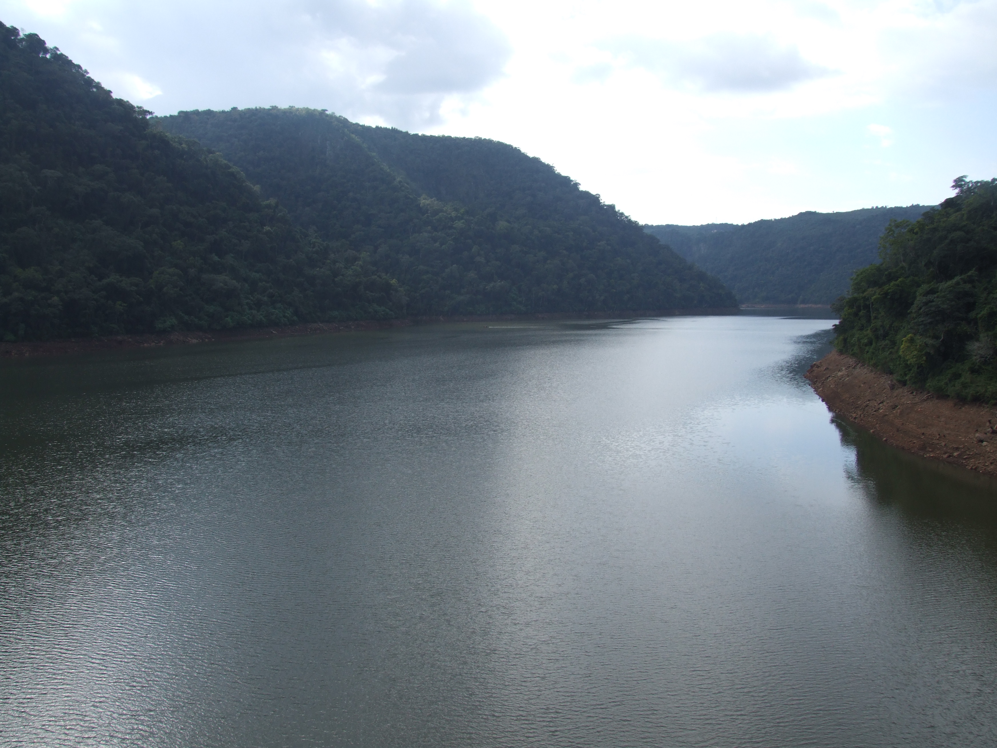 The Uruguay River on the border between the Brazilian states of Santa Catarina and Rio Grande do Sul